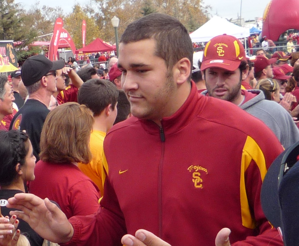 Offensive tackle Matt Kalil during the "Trojan Walk" preceding a 2008 USC Trojans football season game.